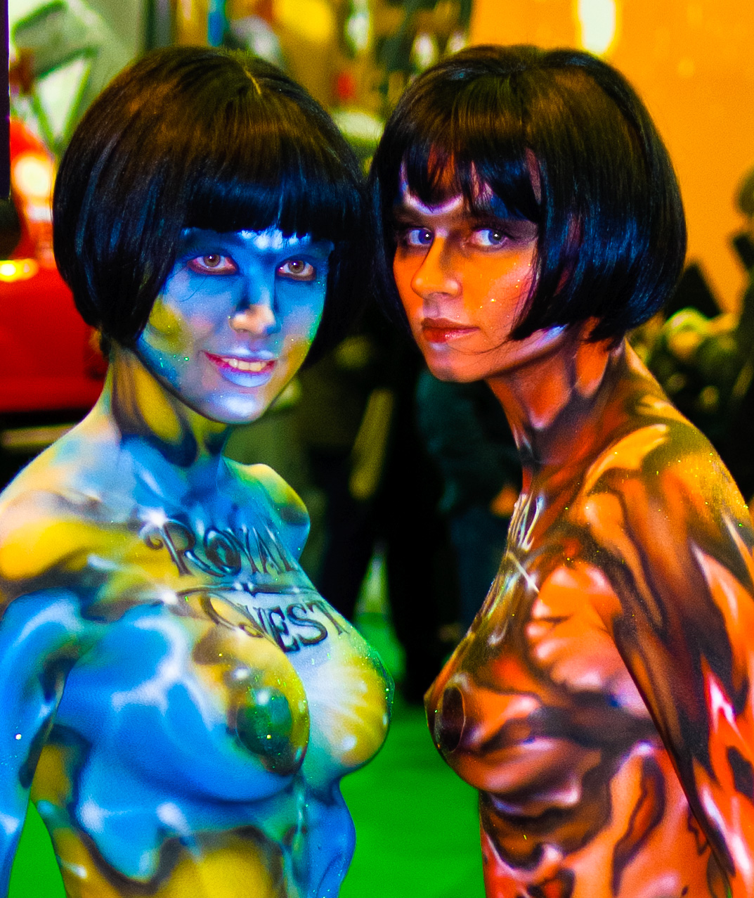 Taken on November 3, 2010 Nikon D40X